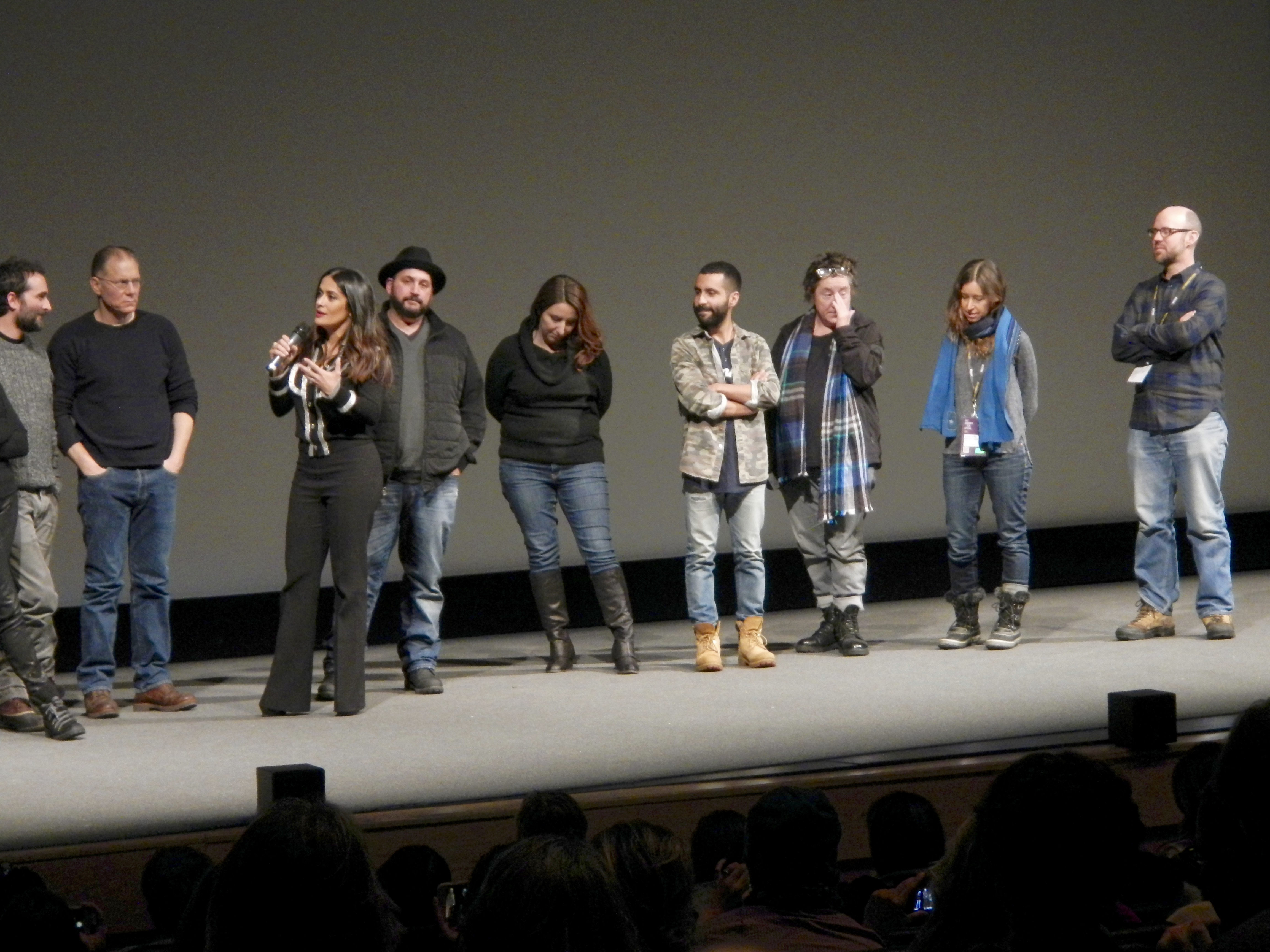 Sundance 2017, Park City UT